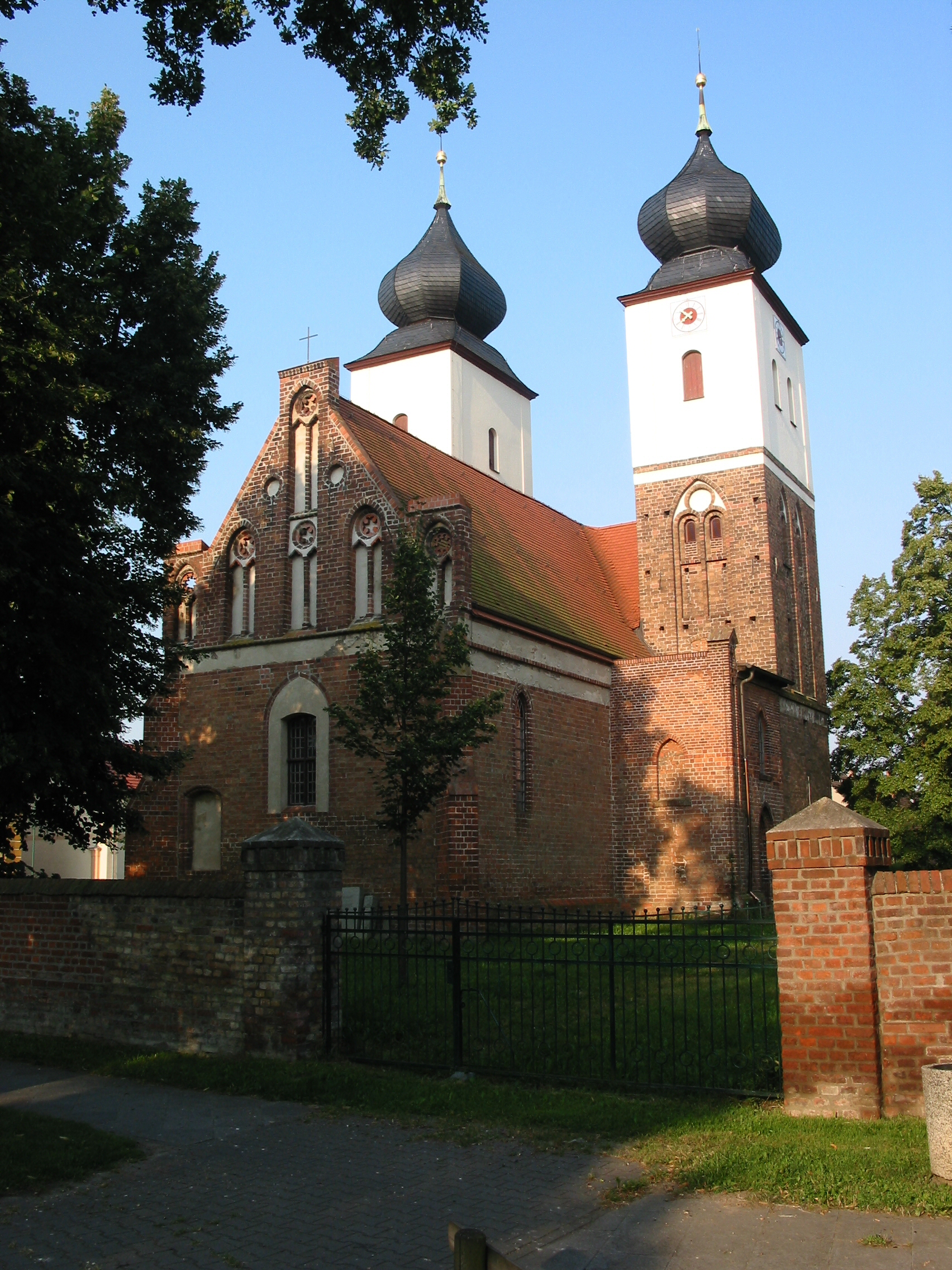 Church in Tremmen